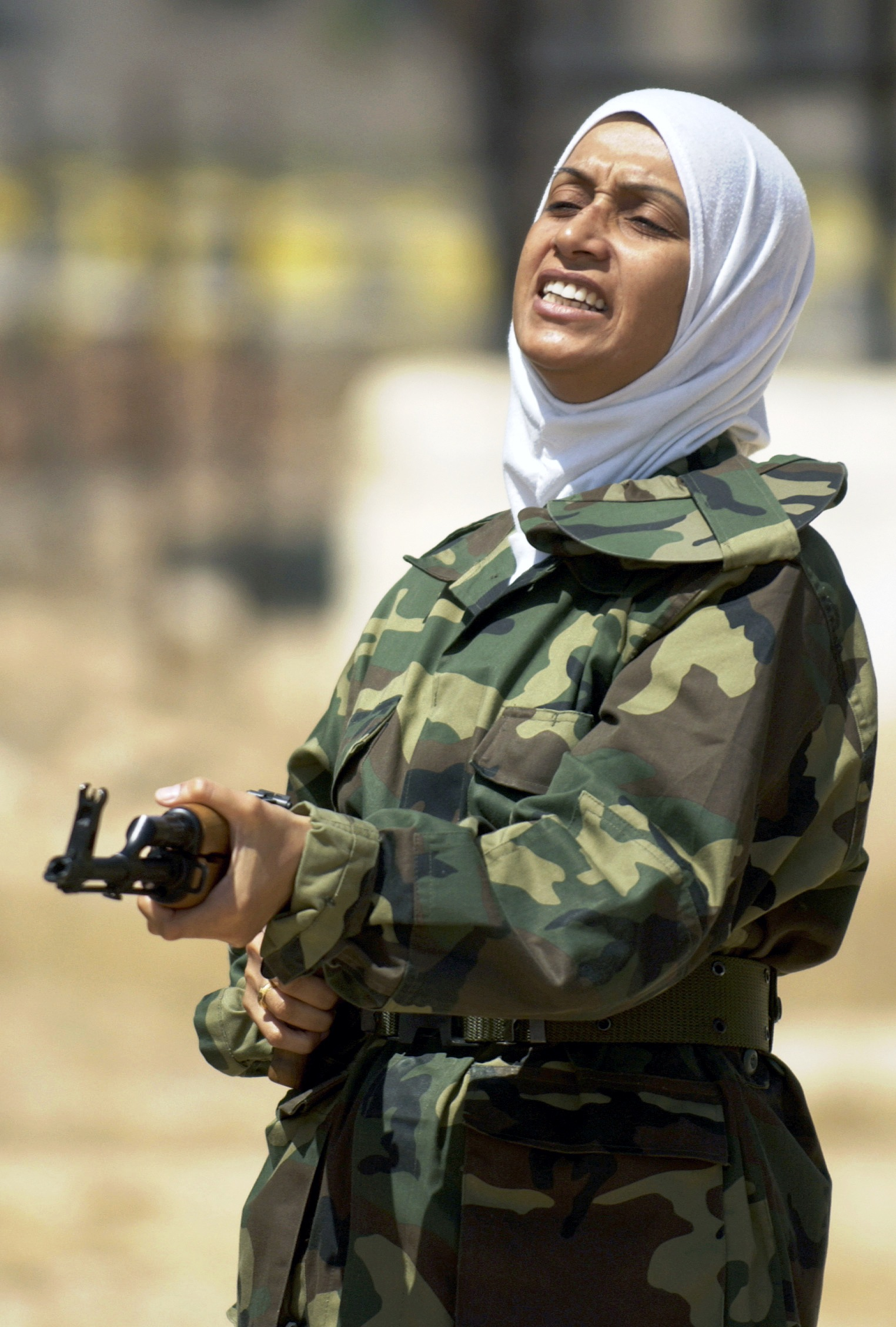 Afrah, an Iraqi Army basic trainee, yells "clear" to let trainers know she is finished clearing her Kalashnikov AK-47 Assault Rifle during live weapons training at the Jordanian Royal Military Academy, Jordan, during Operation Iraqi Freedom.